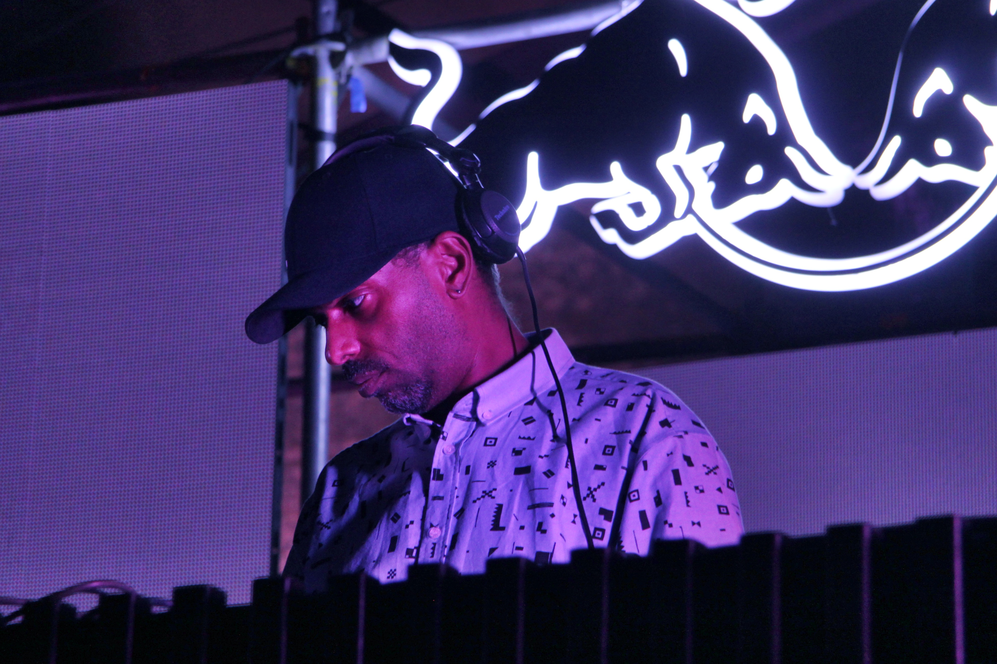 Theo Parrish during Tauron Nowa Muzyka 2014 festival.